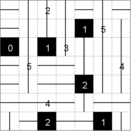 Tatebo-Yokobo solved grid